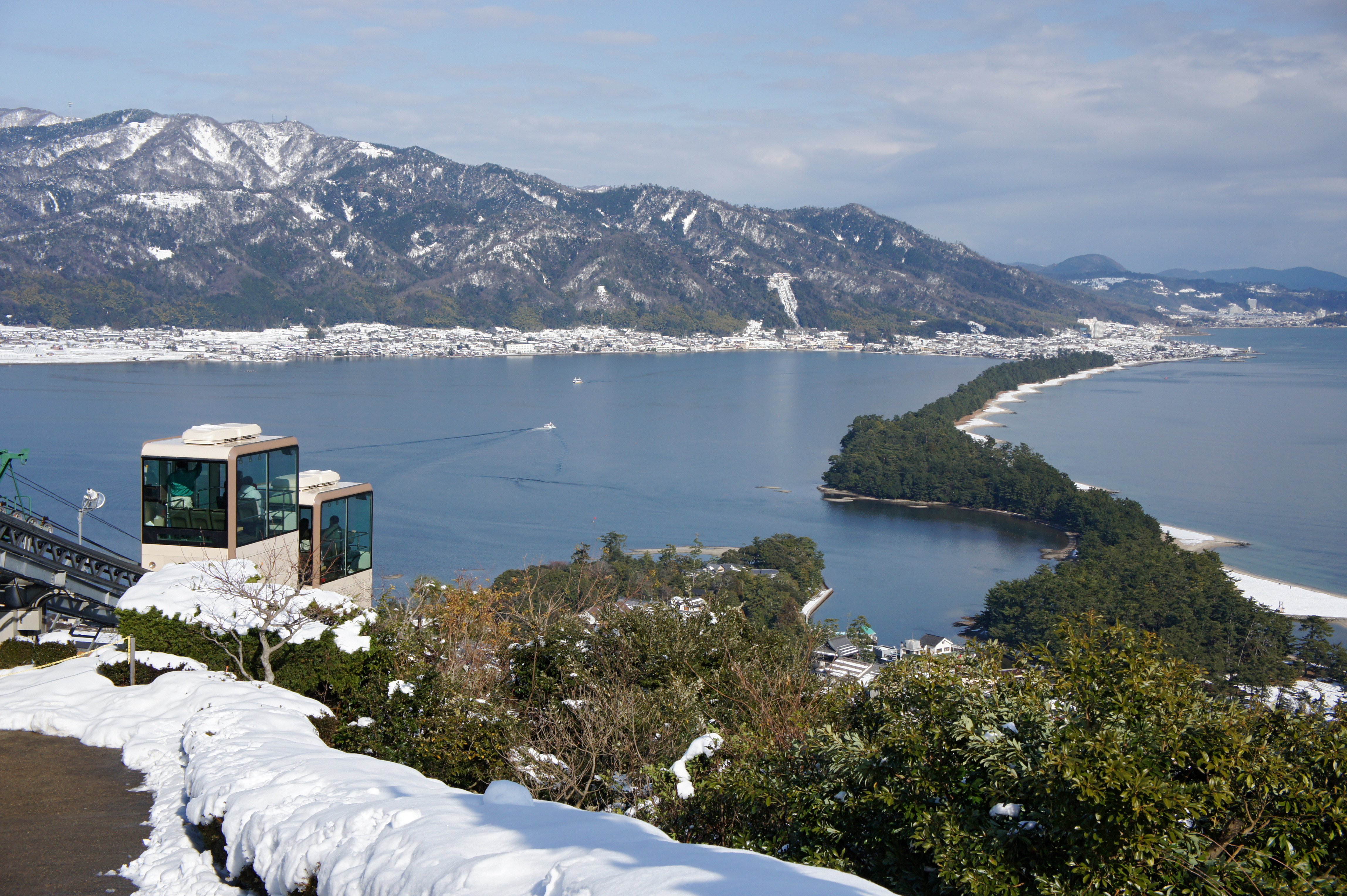 Amanohashidate View Land in Miyazu, Kyoto prefecture, Japan.